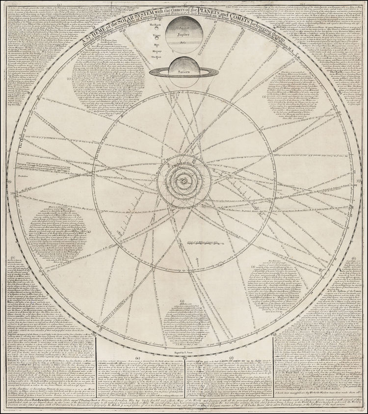 A Scheme of the Solar System with the Orbit of the Planets and Comets belonging thereto, Described from Dr. Halley's accurate Table of Comets Philosoph, Transact. No. 207. Founded on Sr. Isaac Newton's wonderful discoveries By Wm. Whiston M.A. Solar system chart by William Whiston showing cometary paths.